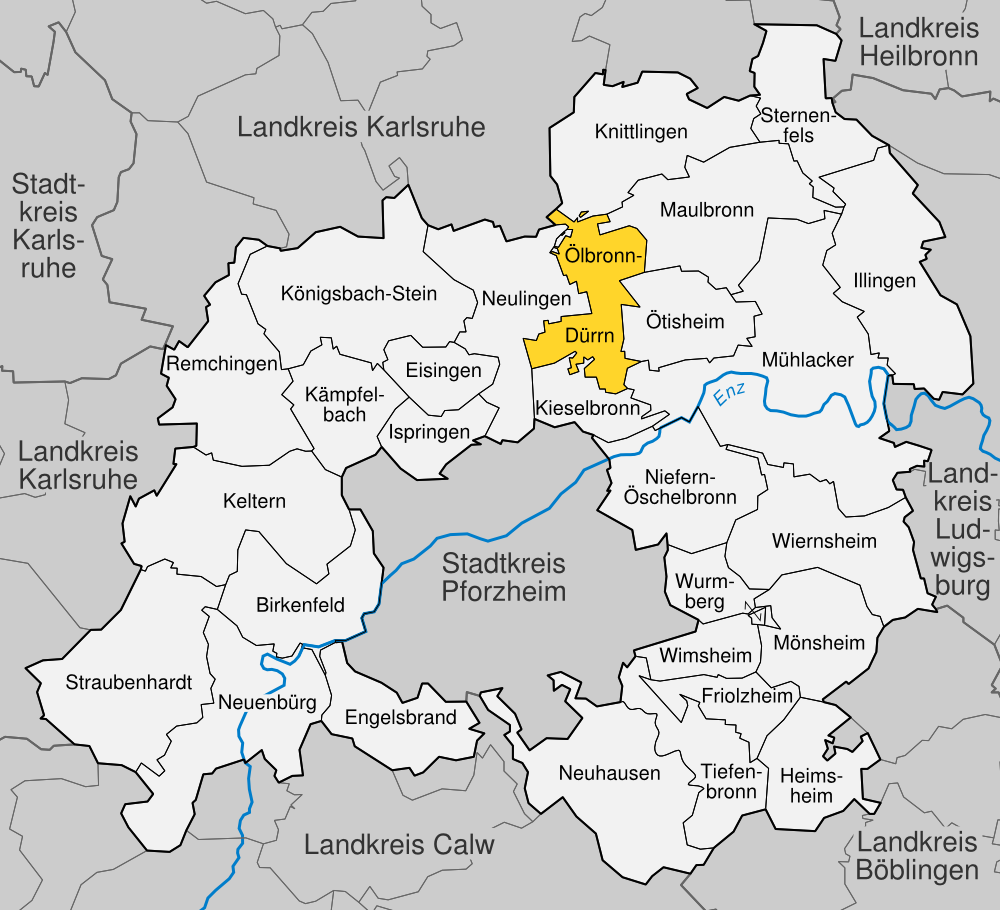 position of Ölbronn-Dürrn within distict of Enzkreis, Baden-Württemberg, Germany